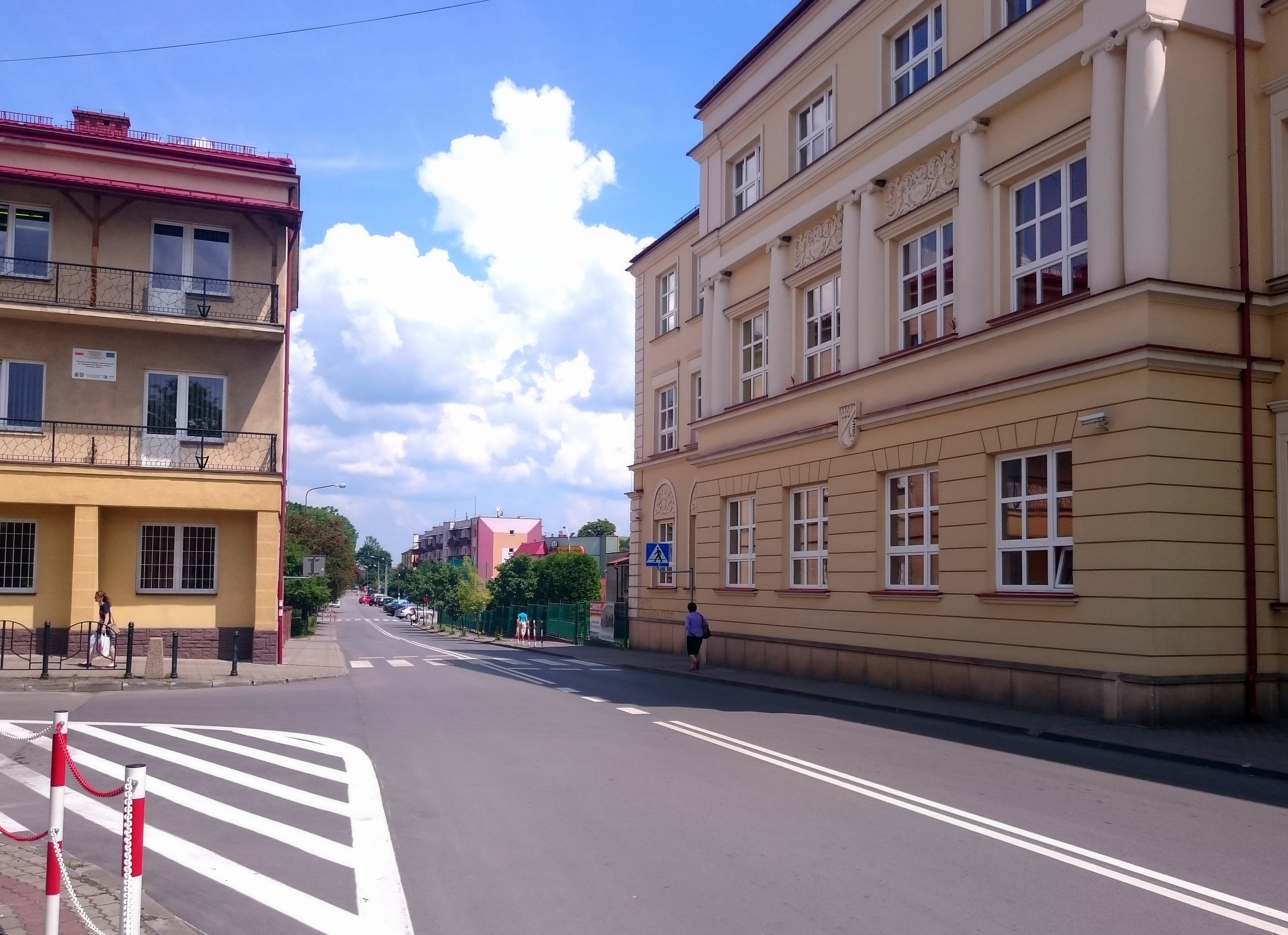 Słowackiego street, city center of Nisko